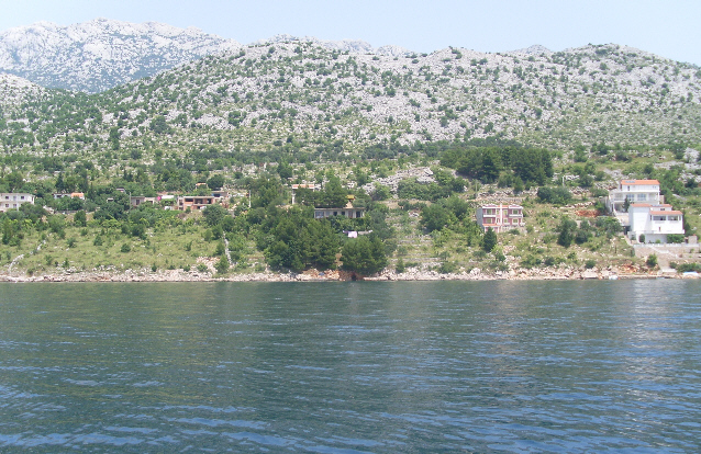 Ladjin porat